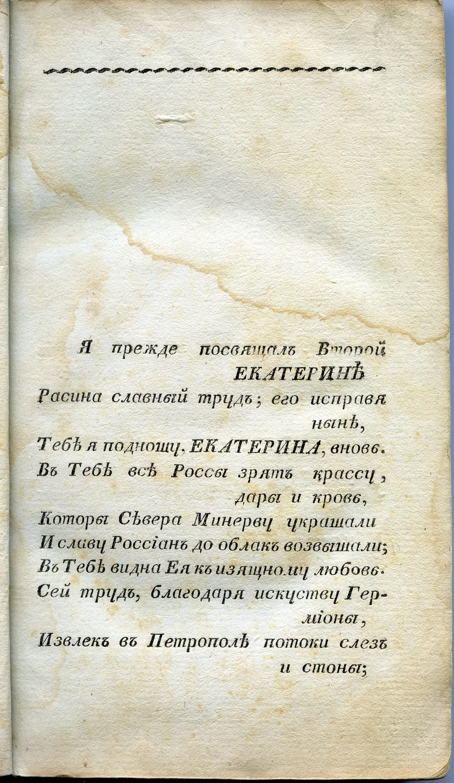 A page of Dmitry Khvostov (1757-1835) book (translation).